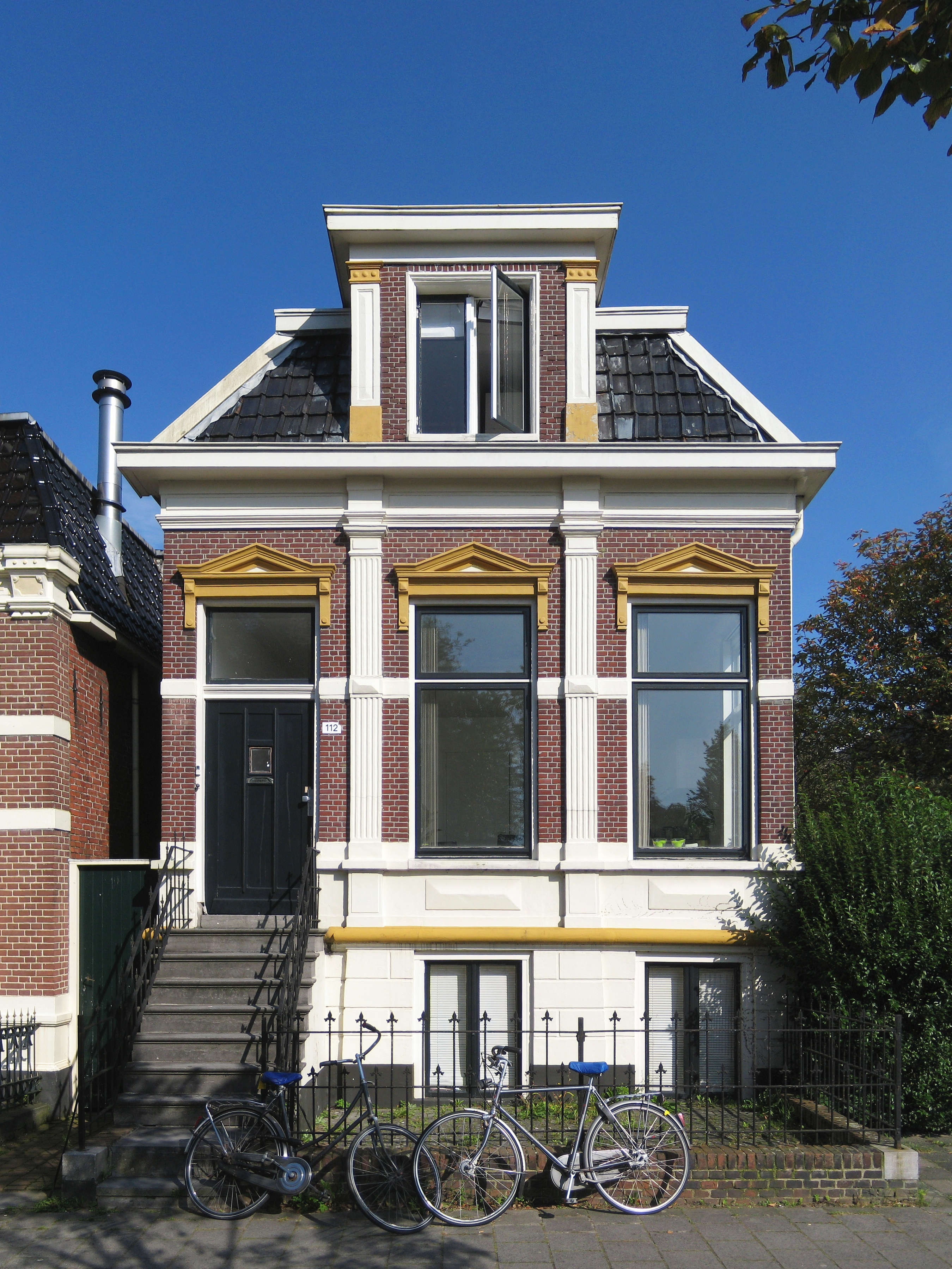 House (1891-1892) in the Dutch city of Groningen.